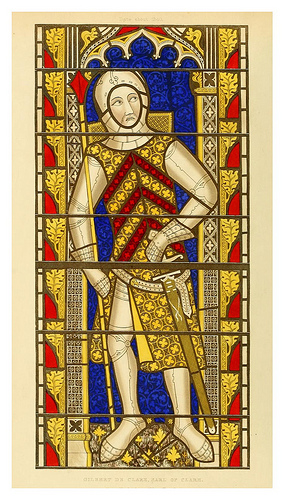 Illustration of Gilbert de Clare from a stained glass window at Tewkesbury Abbey, Gloucestershire, from the book "Dresses and Decorations of the Middle Ages," published in 1843 by Henry Shaw